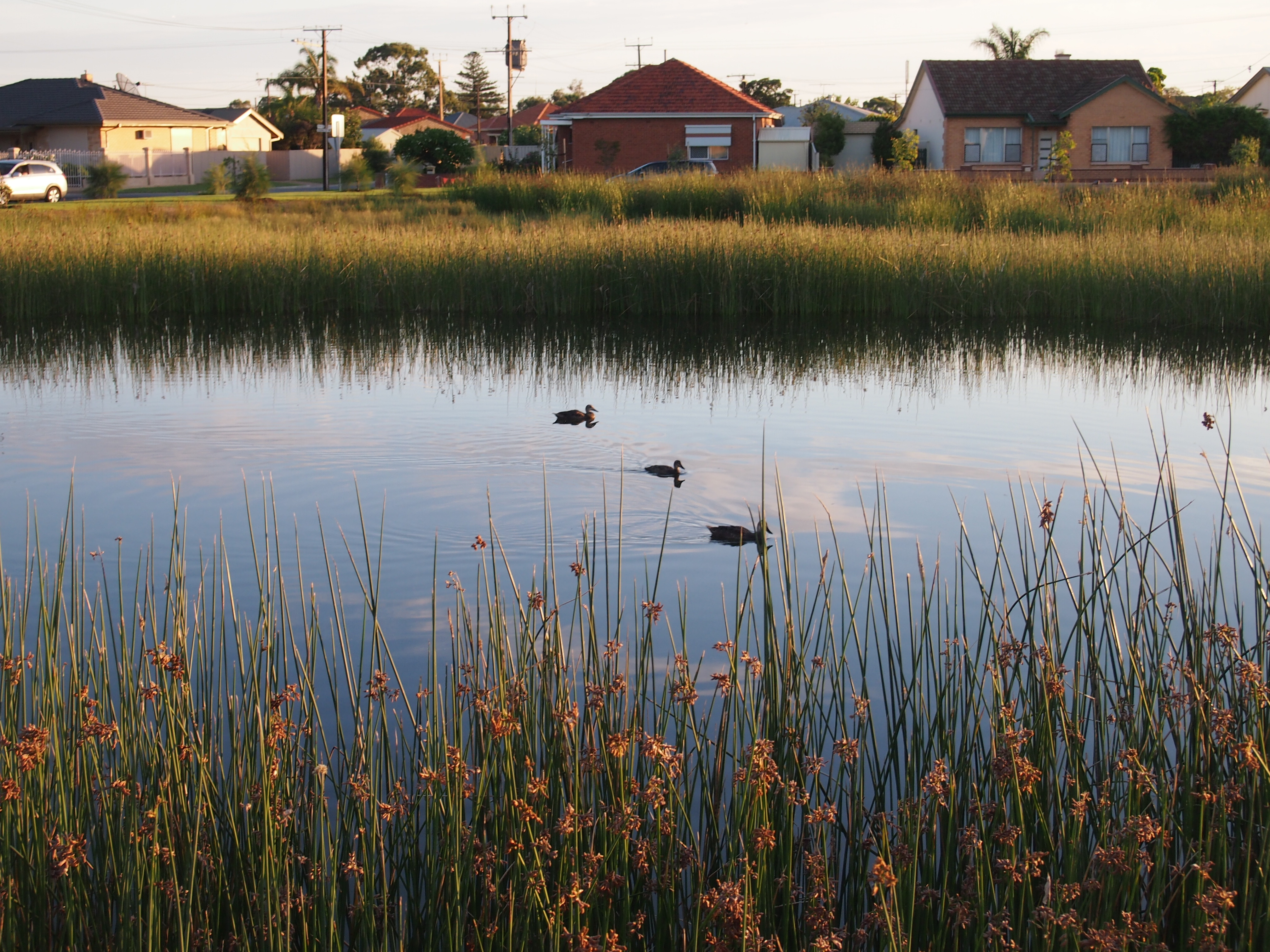 This newly-constructed artificial wetland at Cooke Reserve, Royal Park, South Australia will be used for the final stage of treating stormwater runoff for an ASR (aquifer storage and recovery) scheme serving the western suburbs of Adelaide. Original filename = P3201478.JPG